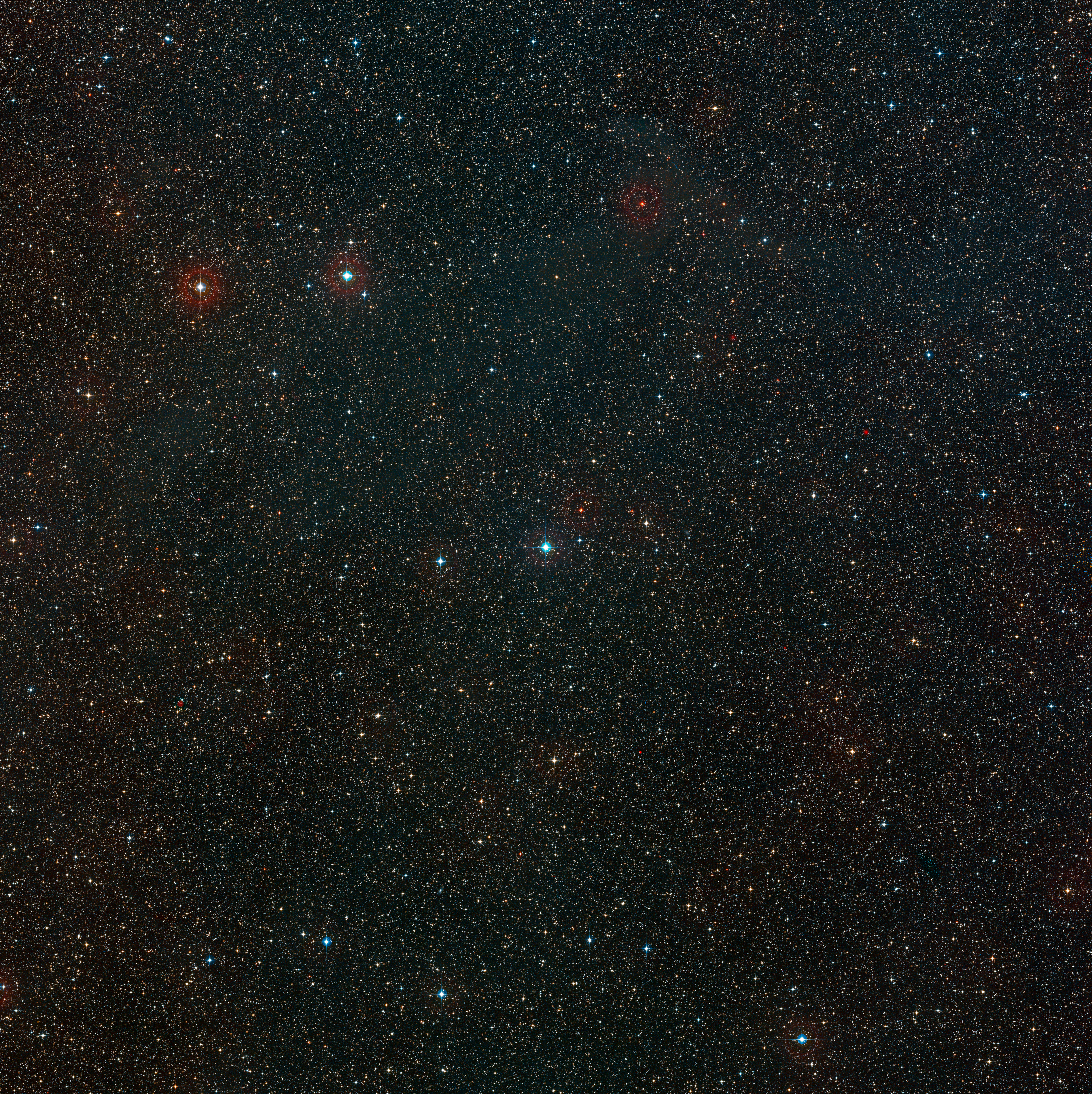 This picture shows the sky around the young star HD 100546 in the southern constellation of Musca (The Fly). It was created from images from the Digitized Sky Survey 2. The cross-like features that are centred on brighter stars, as well as the coloured circles around them, are artifacts of the telescope and photographic process and are not real.